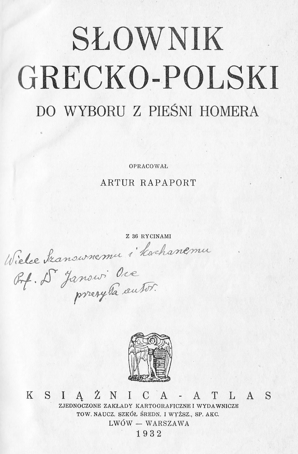 Greek-Polish Dictionary to Homer's epics by Artur Rapaport. It contains a dedication for prof. Jan Oko